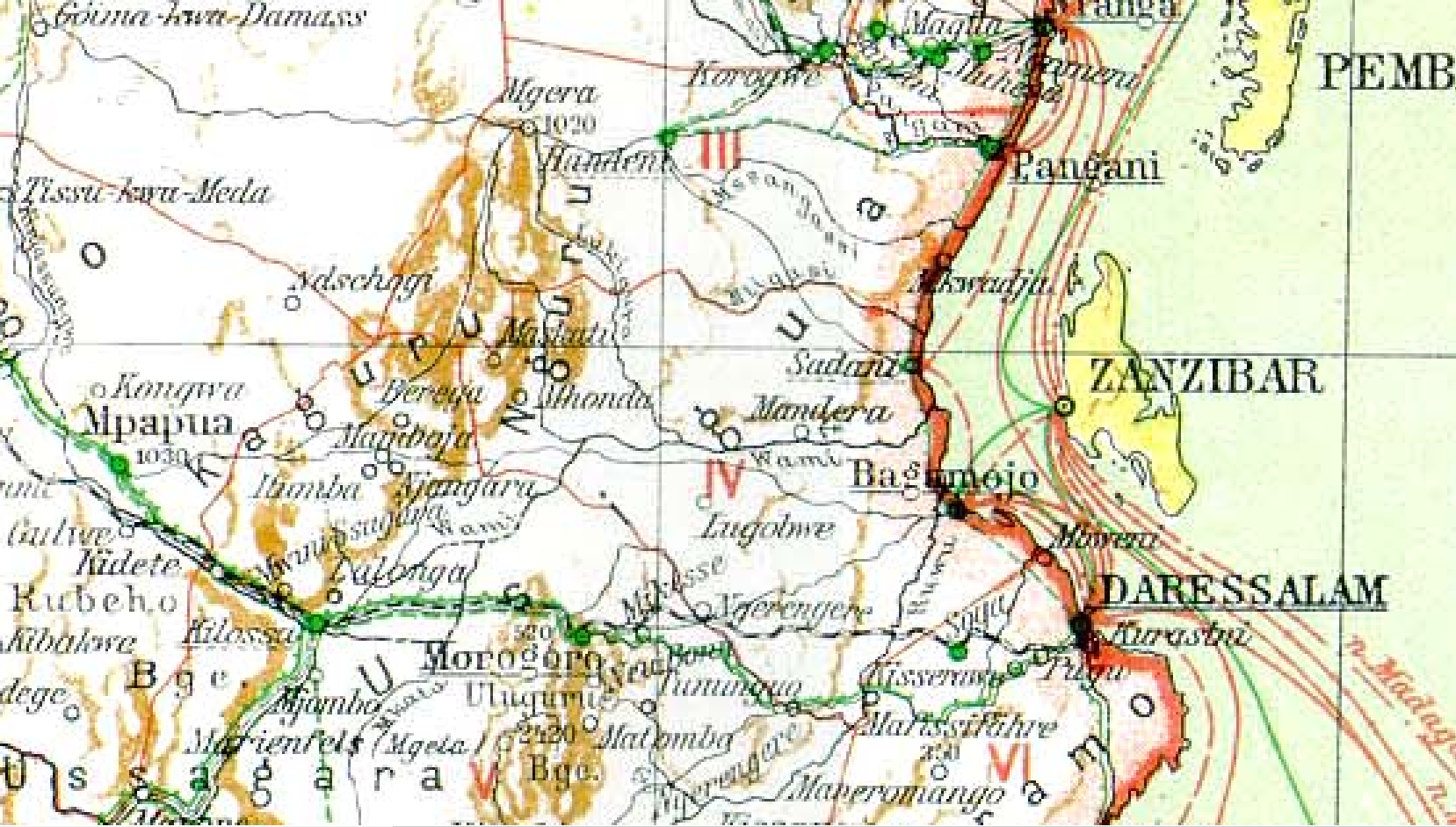 German East Africa, Bagamoyo district. Adapted from Deutsches Kolonial-Lexikon, hrsg. von Heinrich Schnee. - Leipzig : Quelle & Meyer 1920. - 3 Bde.Karte Deutsch-Ostafrika, Topographische Karte